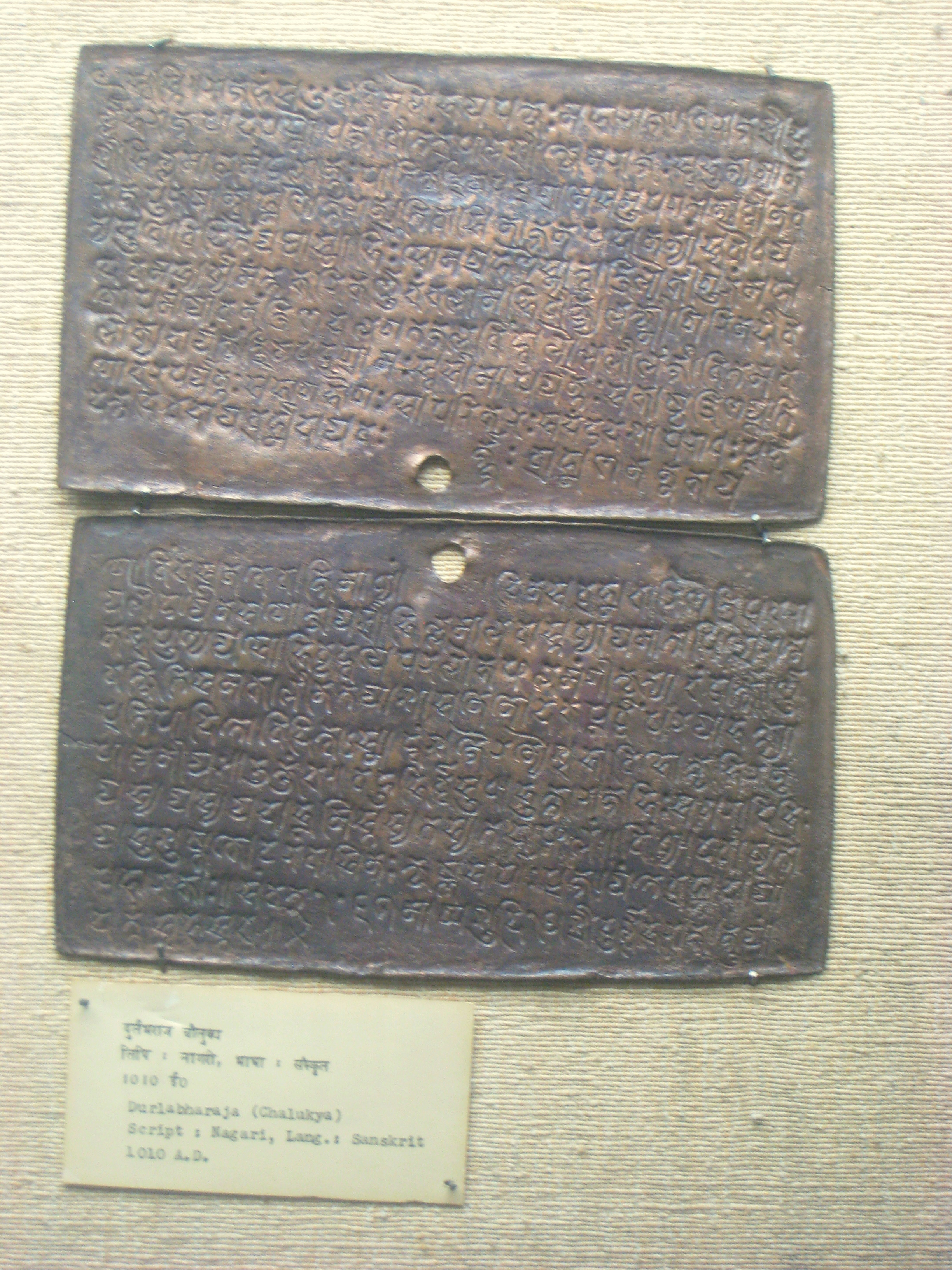 Durlabharaja (Chalukya), Sanskrit in Nagari script, 1010 AD. Copper plates, exhibited in the National Museum, New Delhi, India.